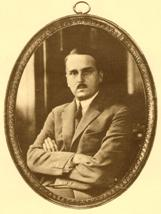 Greek artist Lykourgos Kogevinas (1887-1940)